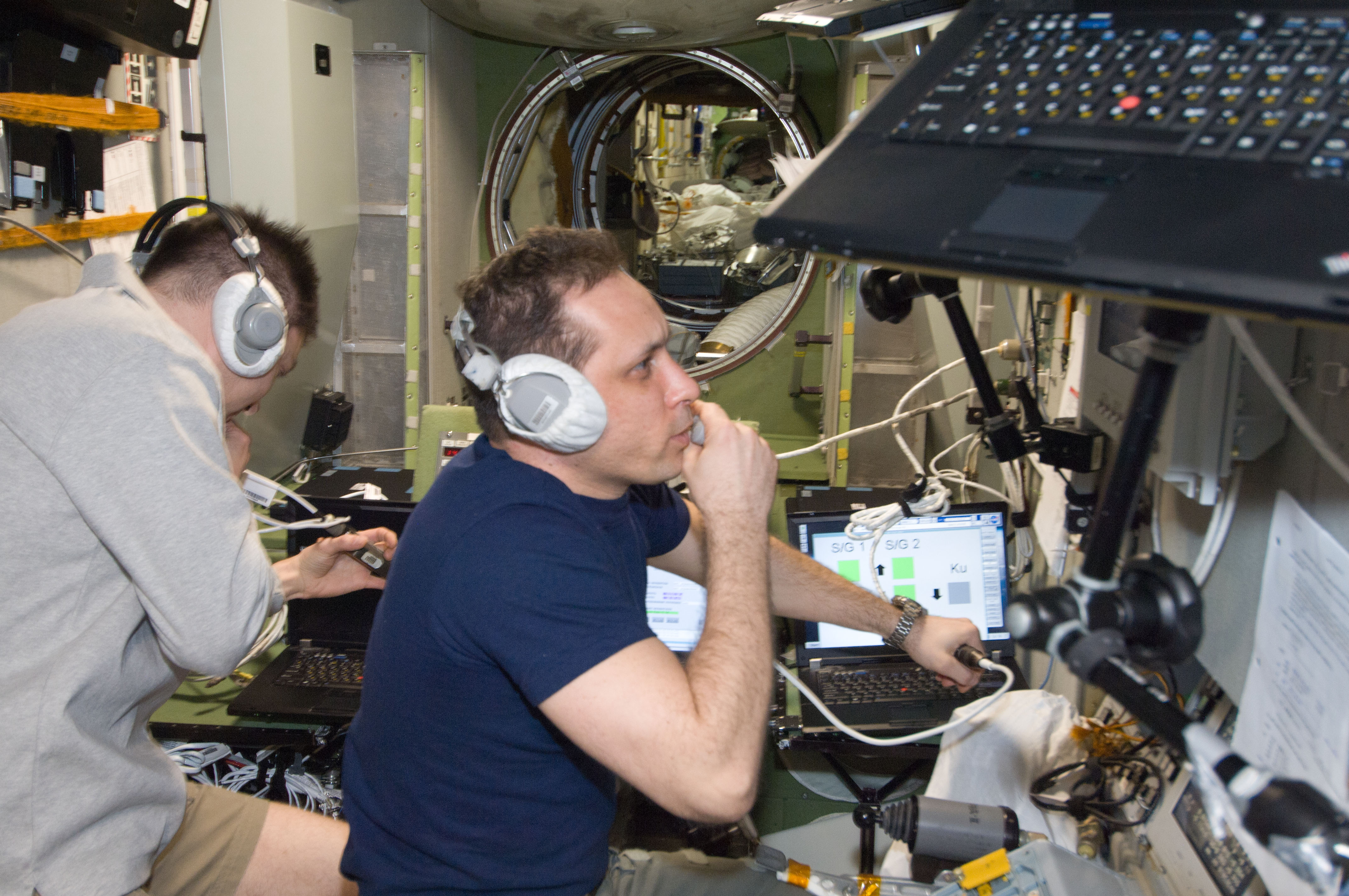 Russian cosmonauts Anton Shkaplerov (right) and Oleg Kononenko, both Expedition 30 flight engineers, monitor data at the manual TORU docking system controls in the Zvezda Service Module of the International Space Station during approach and docking operations of the unpiloted ISS Progress 47 resupply vehicle. Progress 47 docked automatically to the Pirs Docking Compartment via the Kurs automated rendezvous system at 10:39 a.m. (EDT) on April 22, 2012.